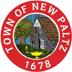 Seal of New Paltz, New York